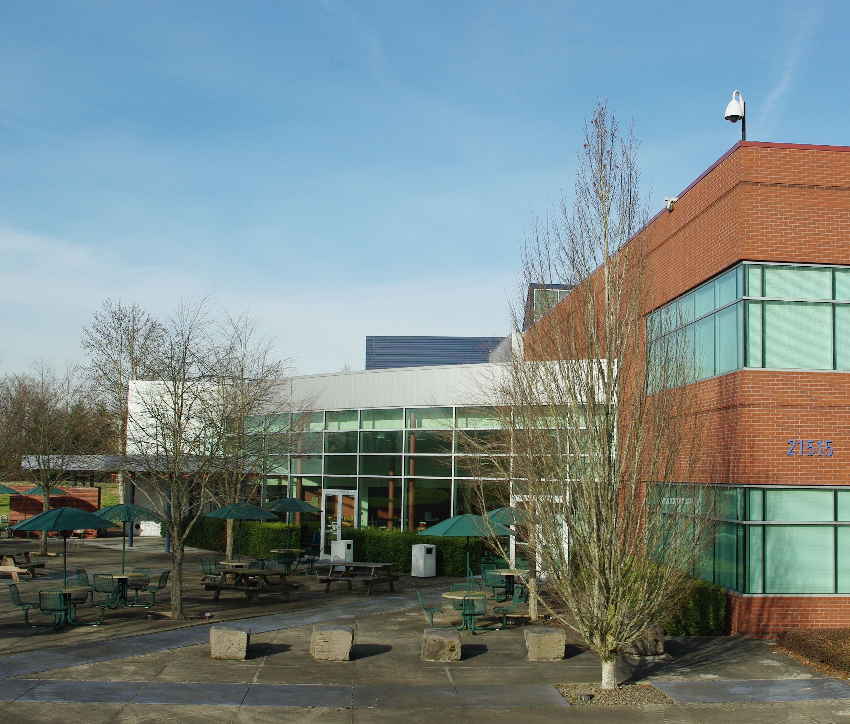 Former Etec Systems headquarter in Hillsboro, Oregon. Undergoing conversion into a data center for Fortune Data Centers.